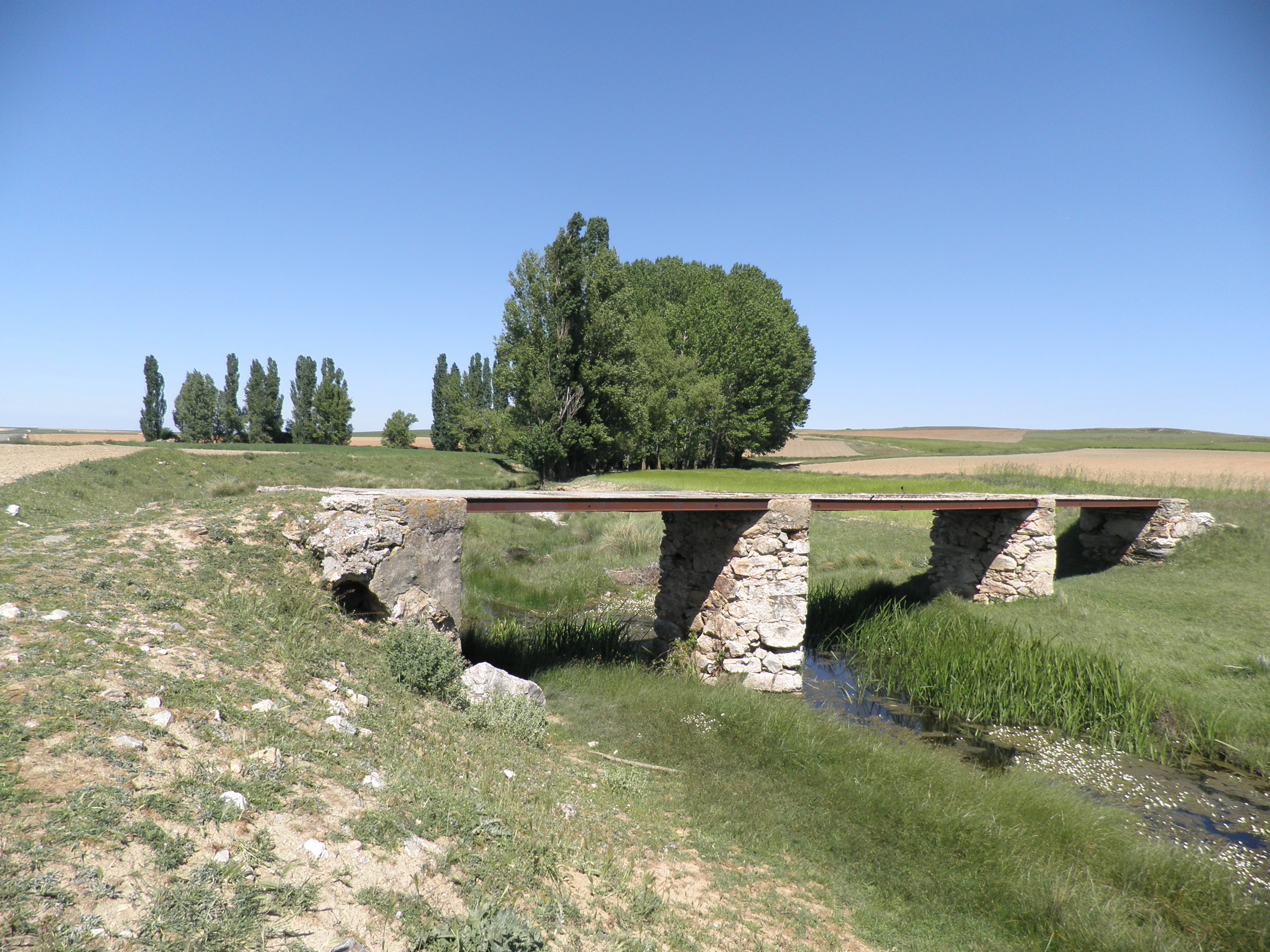 Old bridge of Melque de Cercos, in Segovia province, Spain.